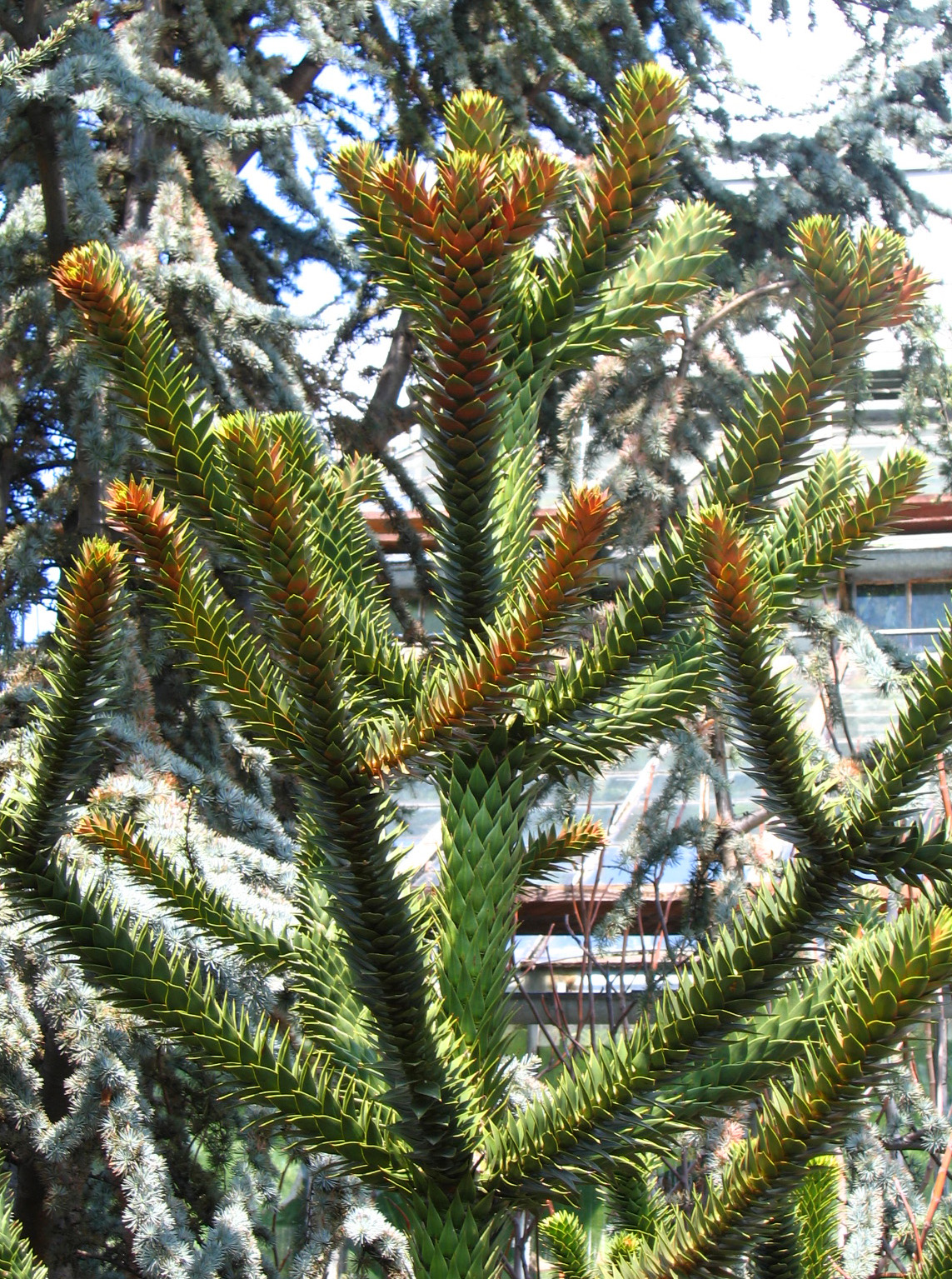 Monkey puzzle (Araucaria araucana), cultivated in Wrocław Uniwersity Botanical Garden, Wrocław, Poland. Tree damaged by frost.